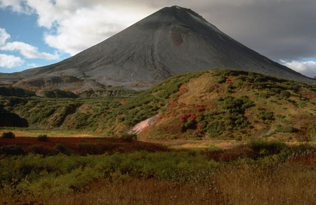 Symmetrical Karymsky volcano fills much of a 5-km-wide, early Holocene caldera. Its smooth-textured slopes, seen here from the south, are mostly mantled by lava flows and pyroclastic deposits less than 200 years old. Lava flows on this side have overtopped the southern rim of the caldera.